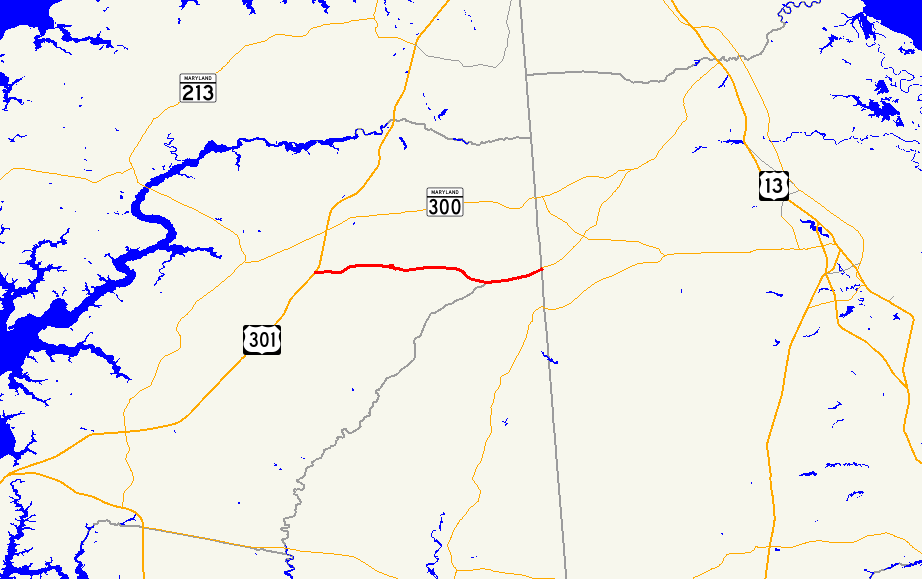 Map of Maryland Route 302